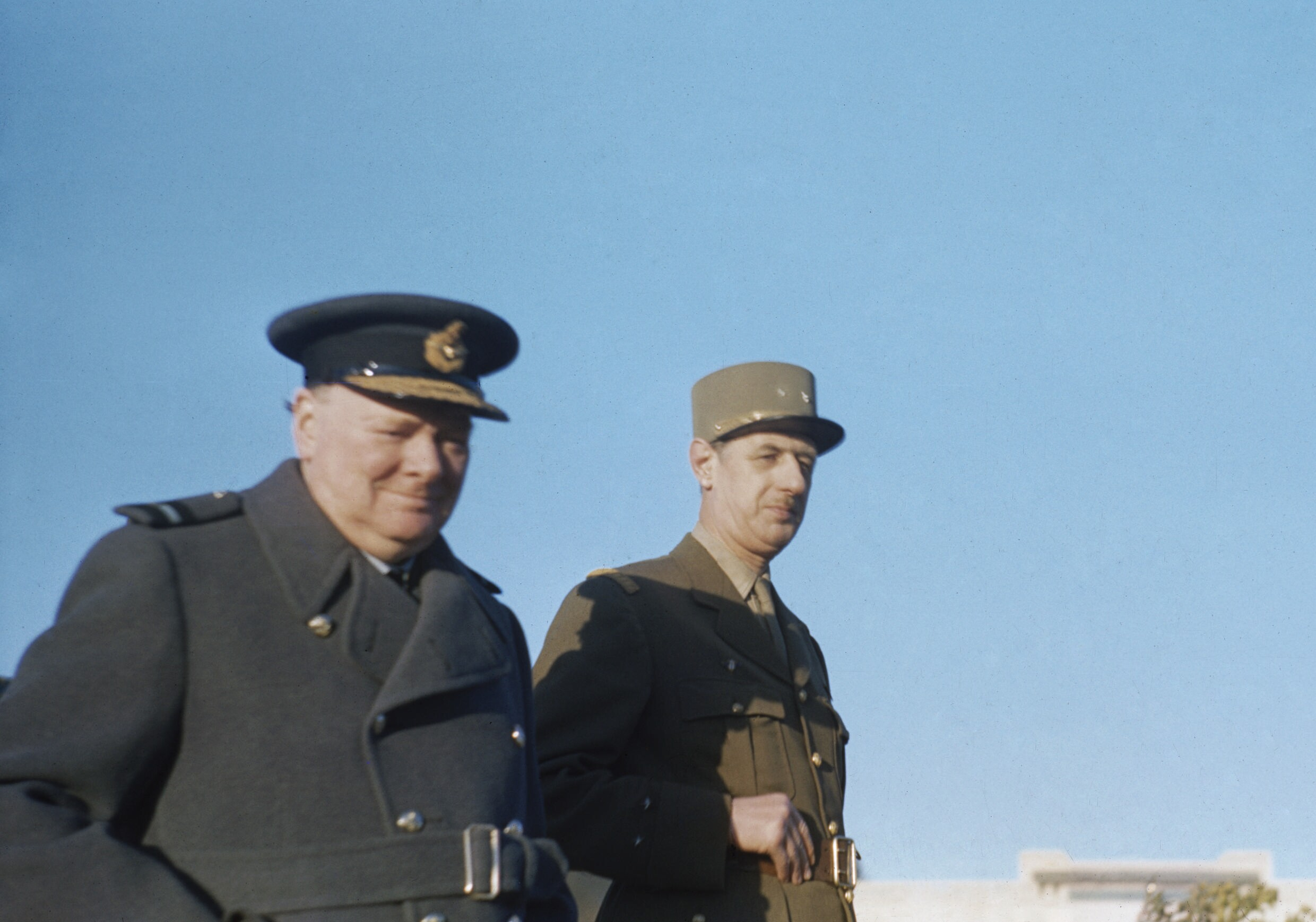 Winston Churchill with General de Gaulle during an inspection of French troops at Marrakesh in Morocco, January 1944. The Prime Minister, the Rt Hon Winston Churchill, MP (wearing the uniform of an air commodore) with General de Gaulle during the inspection of French troops at Marrakesh.